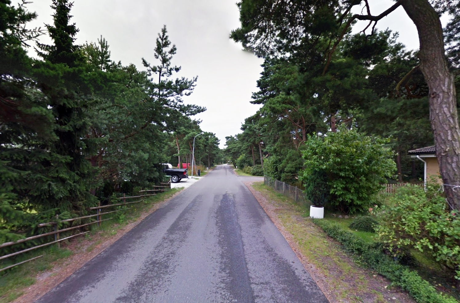 Characteristic street in Höllviken.